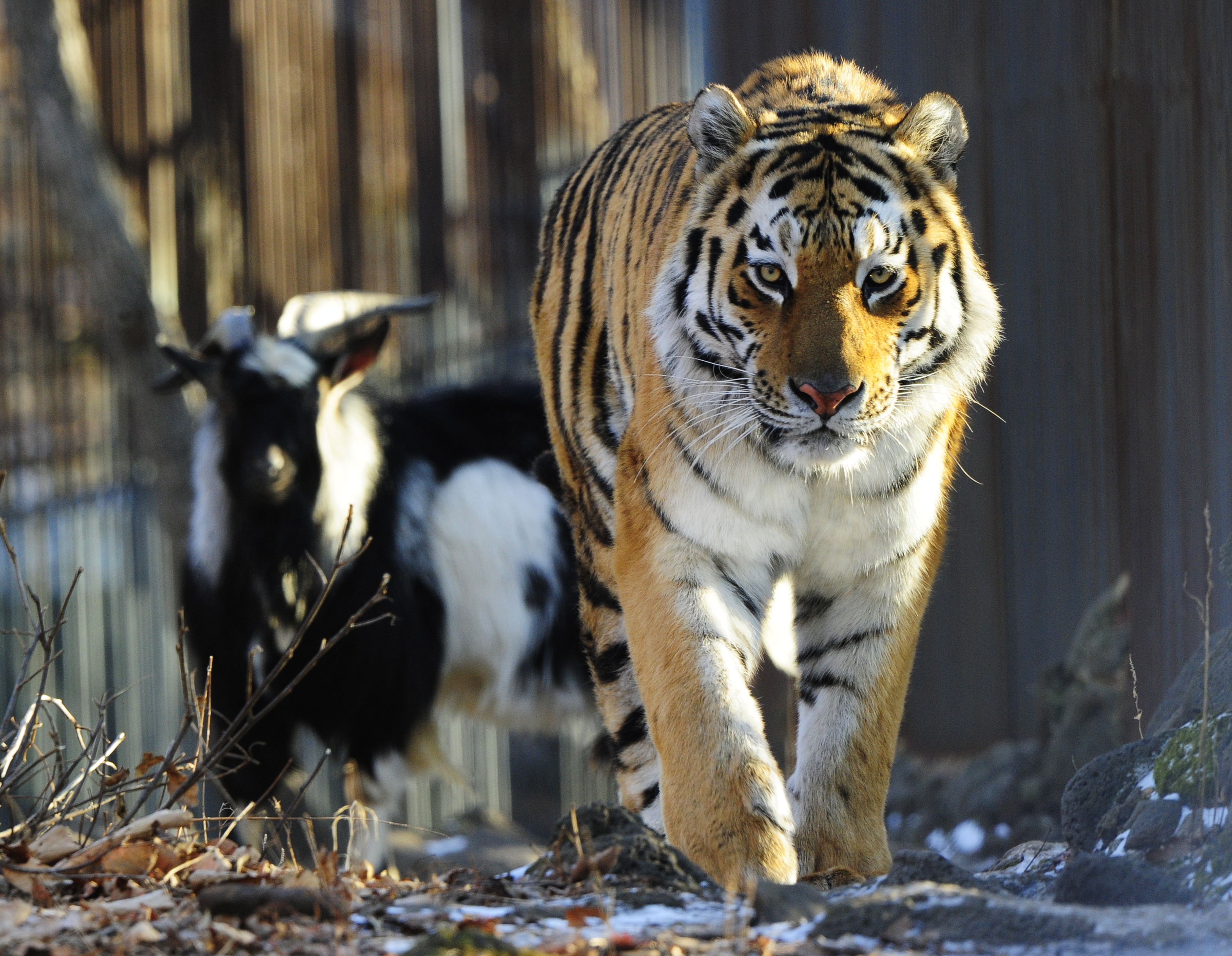 Amur and Timur